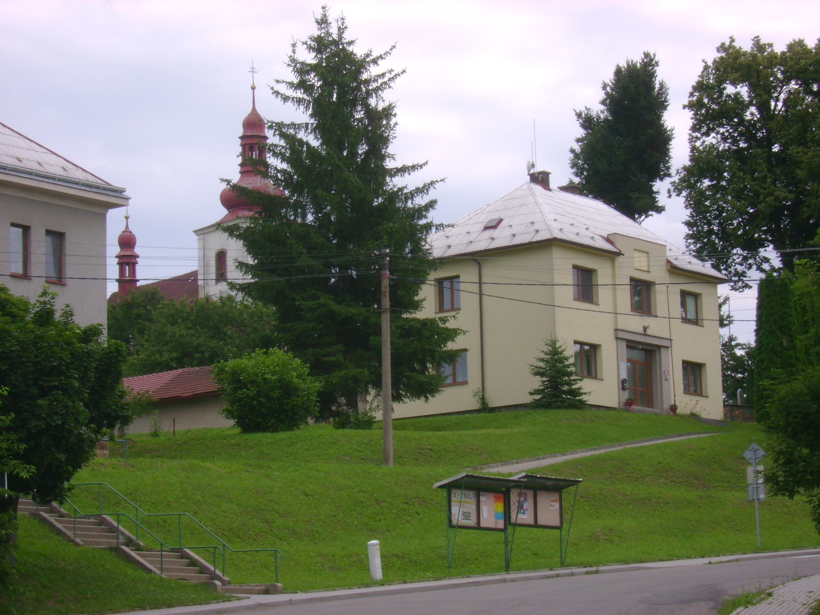 Javornice, Rychnov nad Kněžnou District, the Czech Republic. – Municipal office and the Church of Saint George. Česky: Javornice, okres Rychnov nad Kněžnou. – Obecní úřad a kostel svatého Jiří.